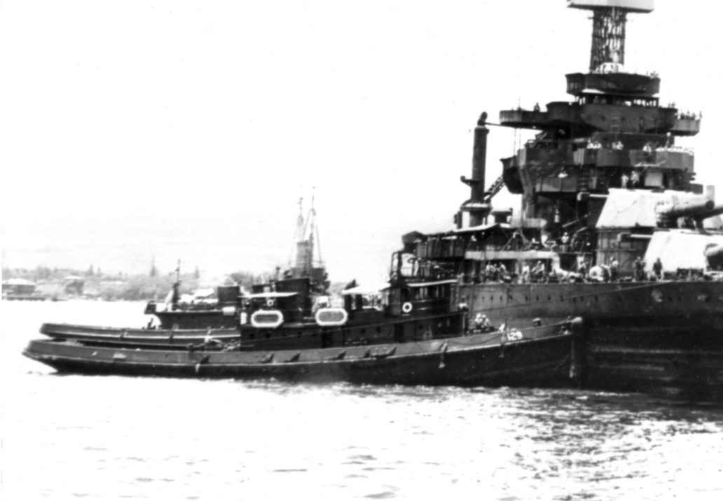 United States Navy tug USS Osecola (YT-129) assisting a battleship at Pearl Harbor, Hawaii